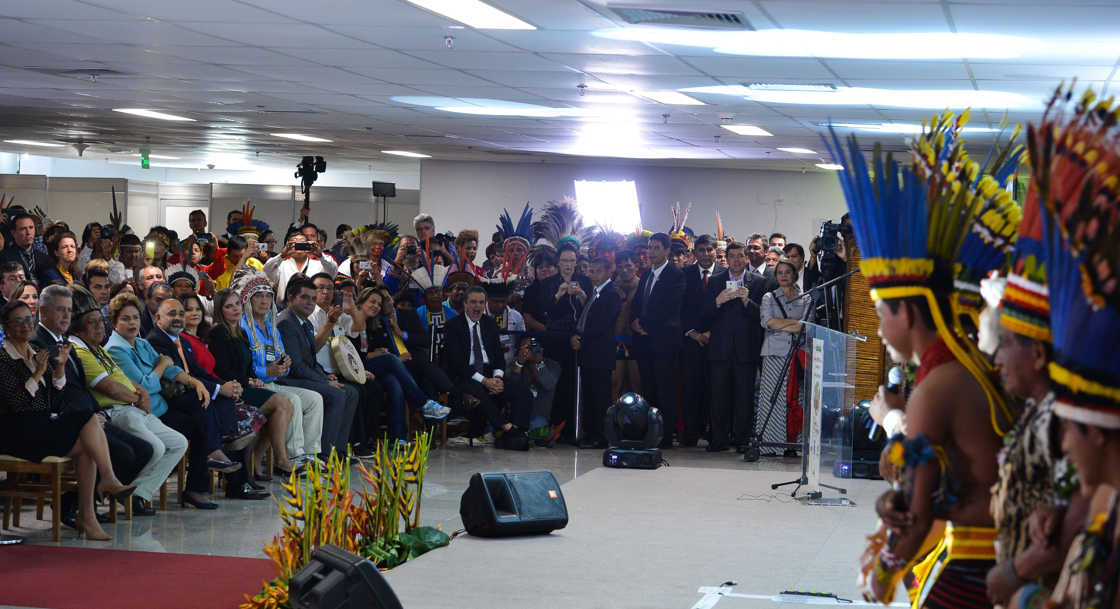 Photo by Valter Campanato/Agência Brasil CCBY3.0